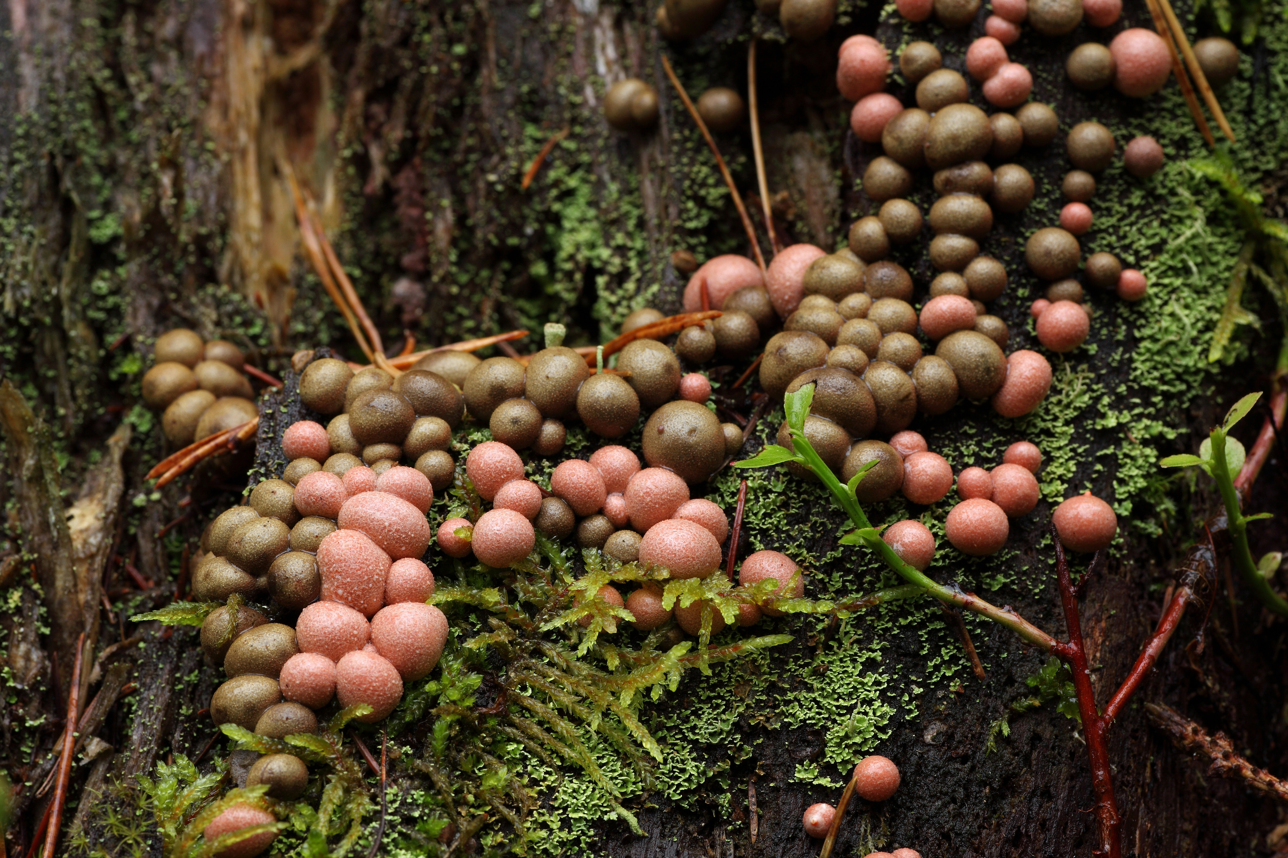 Immature and mature aethalia of Lycogala epidendrum in Lehtmetsa Village, Järva County, Estonia, 22nd September 2015.